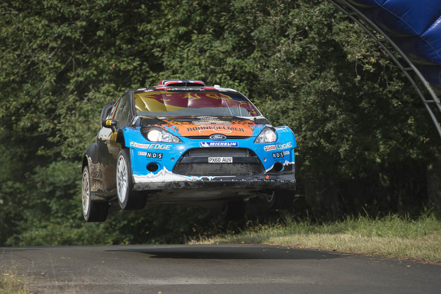 Rally Germany 2012 ADAC Rallye Deutschland,Adapta WRT,Adapta World Rally Team,Arena Panzerplatte 1,Ford Fiesta RS WRC,Gina,Jonas Andersson,Mads Östberg,Motorsport,Rally,Rallye,Rallye Deutschland,SS9,WP9,WRC